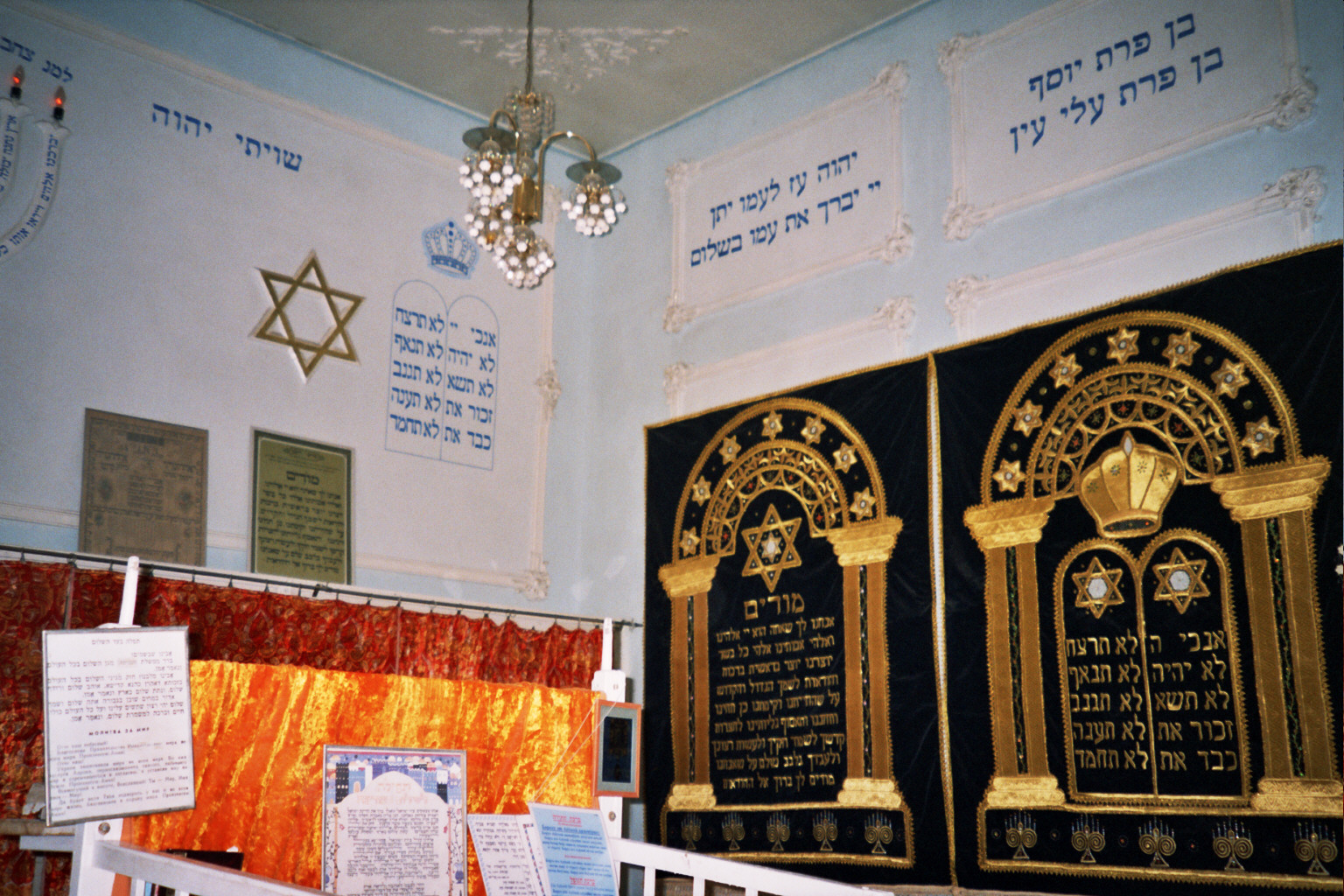 looked like a regular synagogue to me inside